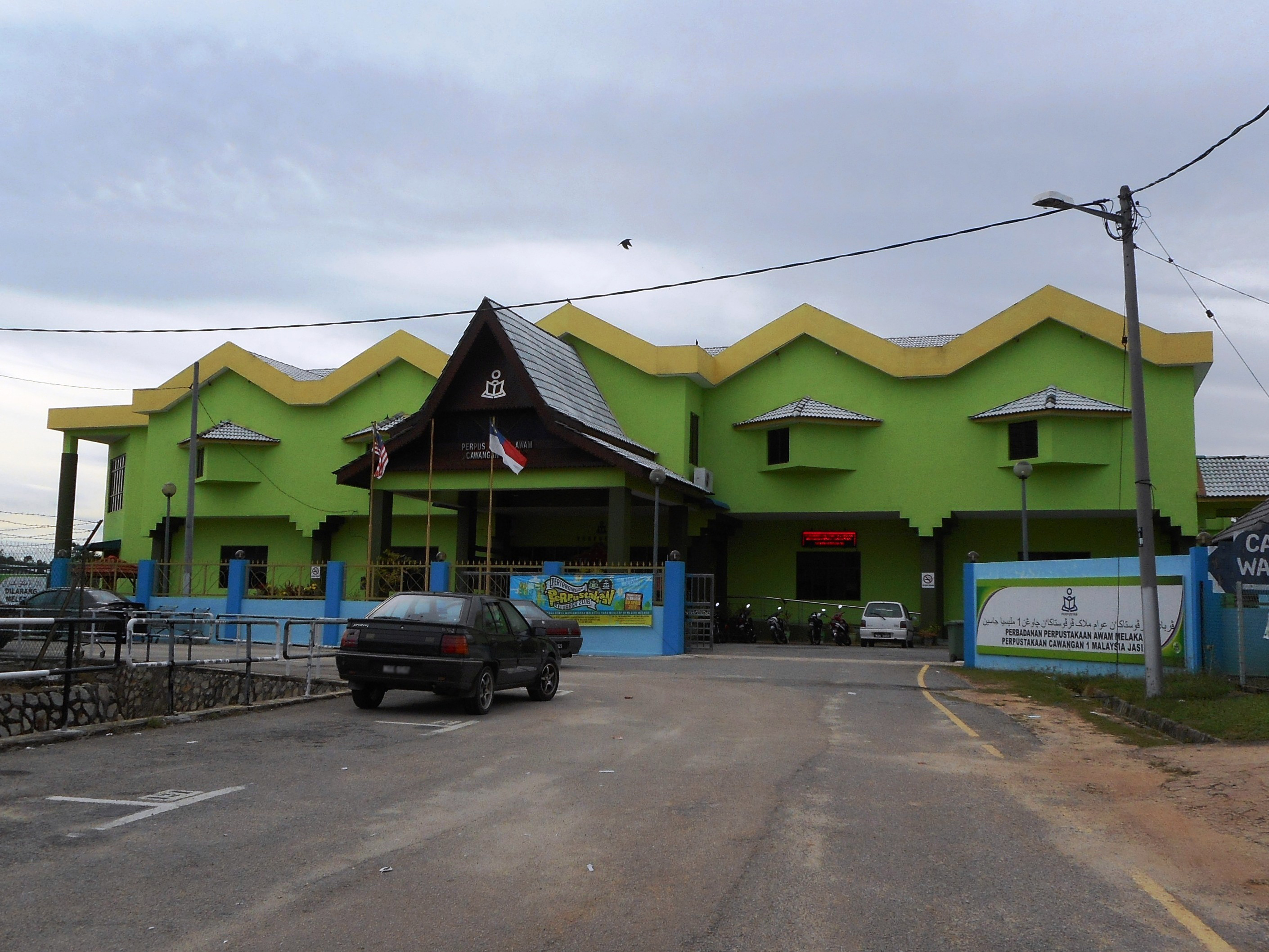 Jasin Public Library, Jasin, Melaka, Malaysia